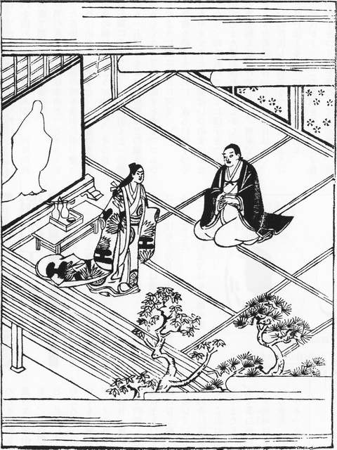 Kichibē-no-E from Otogi-Hyakumonogatari